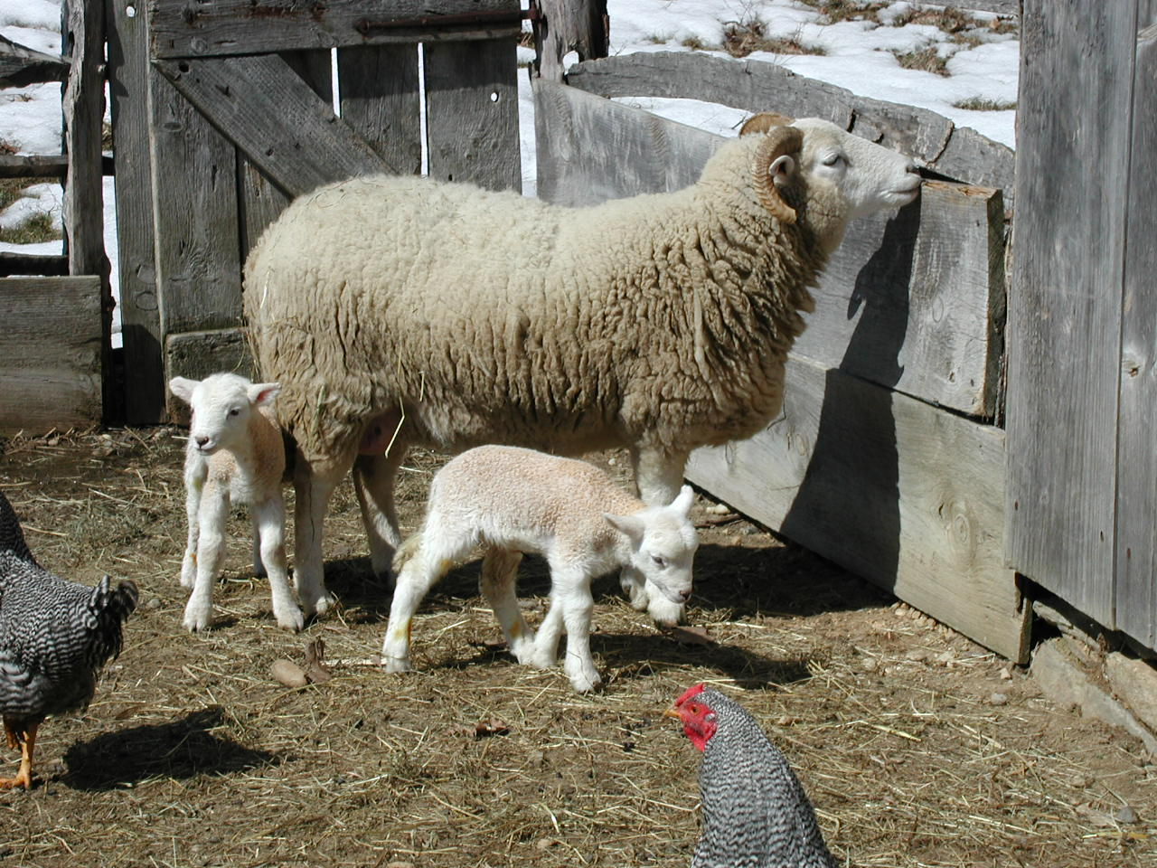 Ram, lambs, and chickens: Sturbridge, Massachusetts, 2001